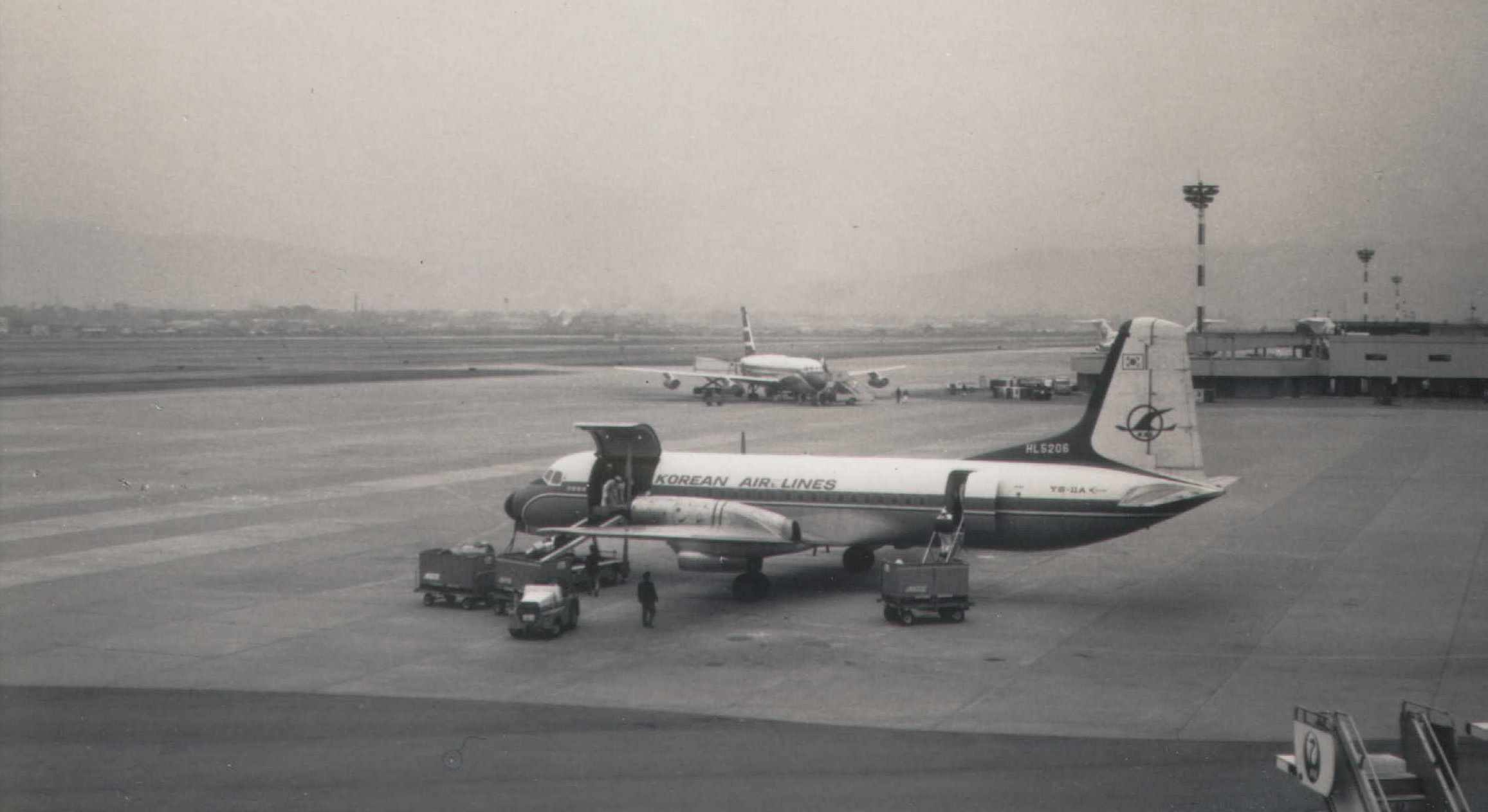 Taken at Osaka International Airport in 1971, YS-11A actually flew regular international flights between South Korea and Japan.